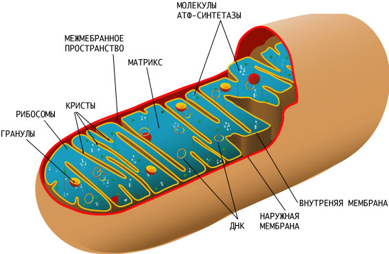 mitochondrion.